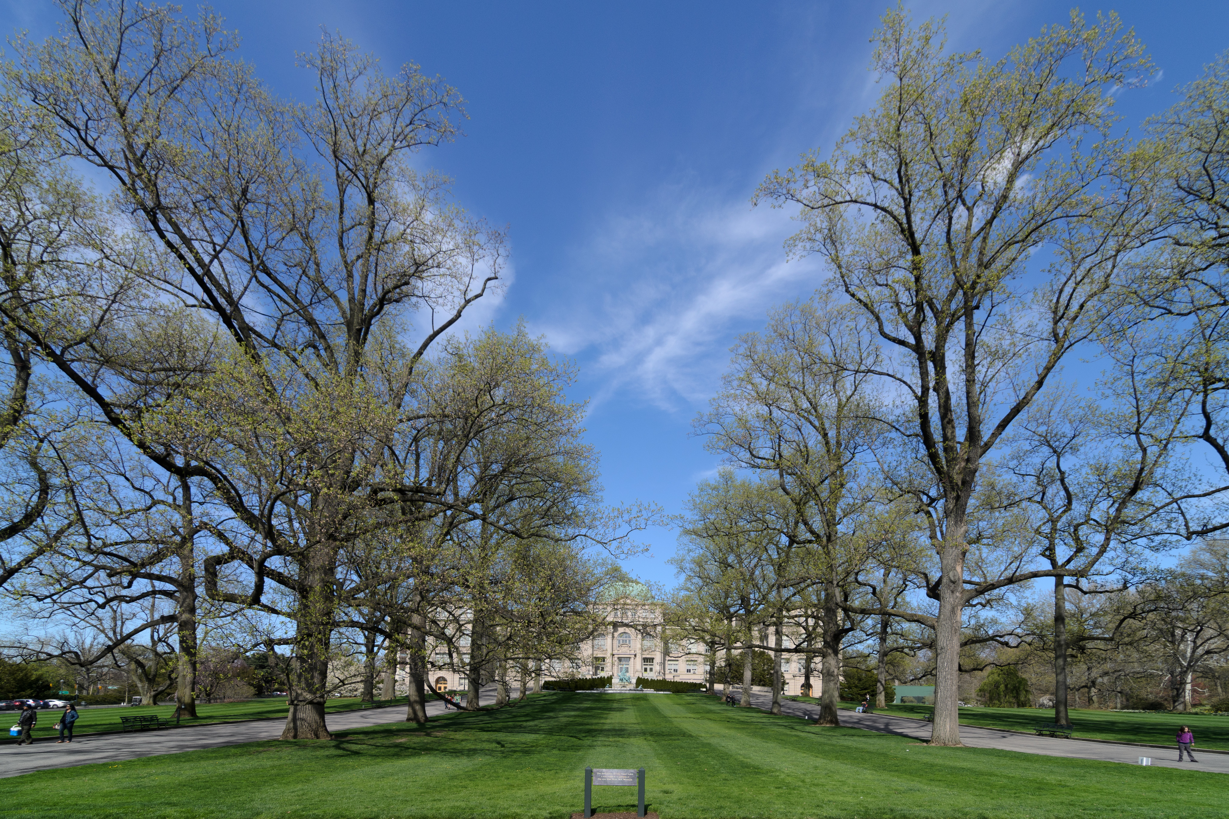 Tulip Tree Allée leading to the LuEsther T. Mertz Library, New York Botanical Garden, The Bronx, New York City.